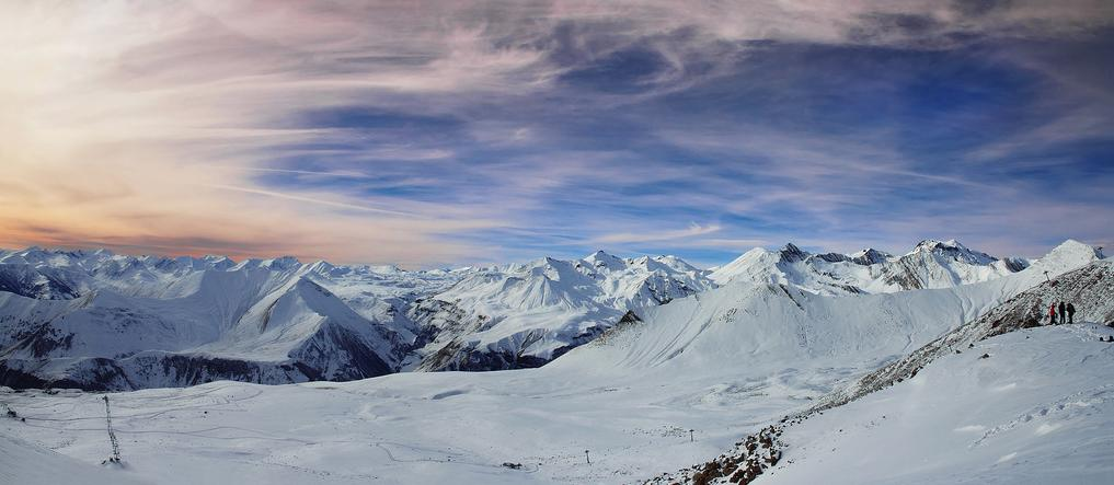 Gudauri, Georgia by Paata Liparteliani ავტორი: პაატა ლიპარტელიანი